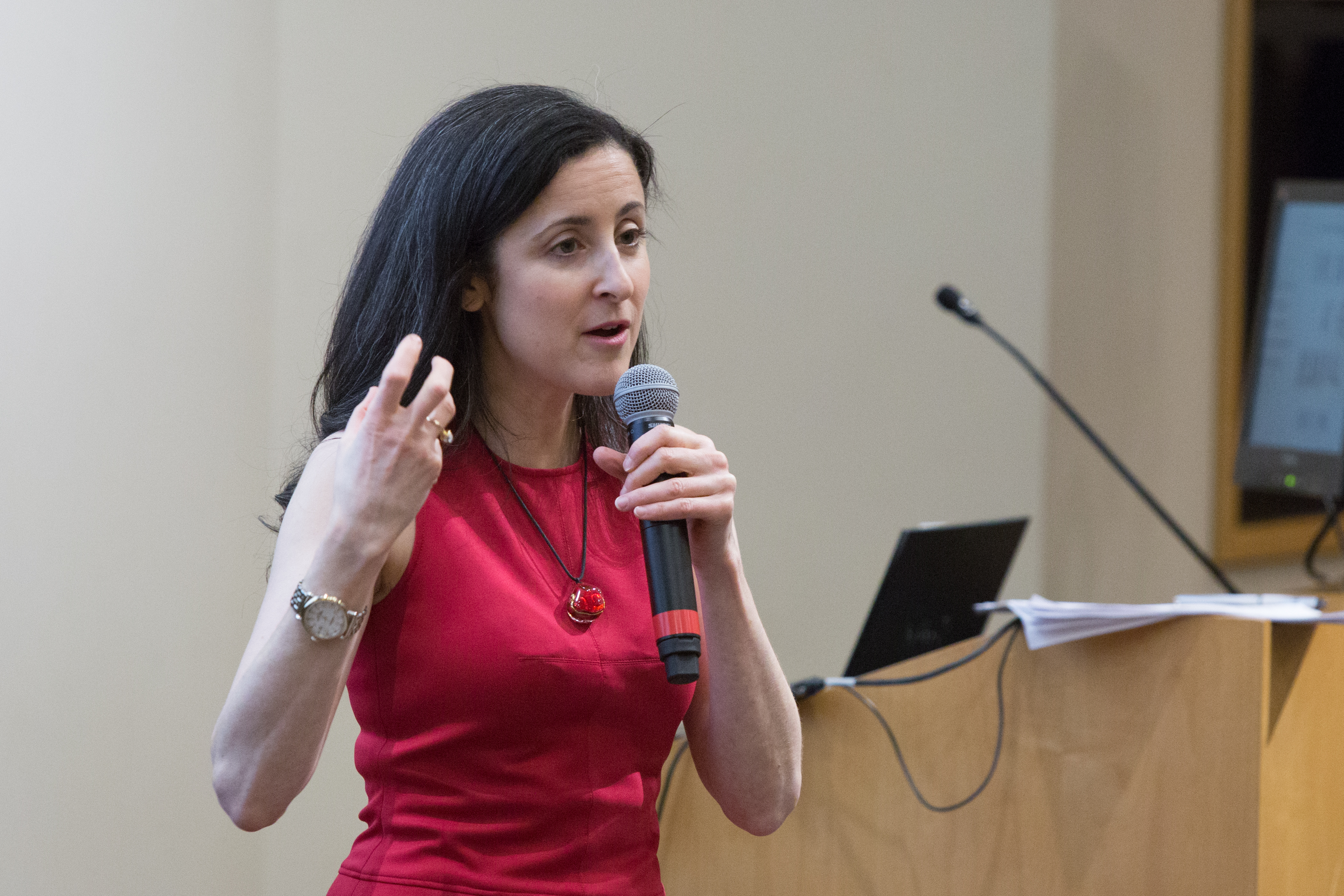 Sheri Fink in 2016 at the Edmond J. Safra Center for Ethics